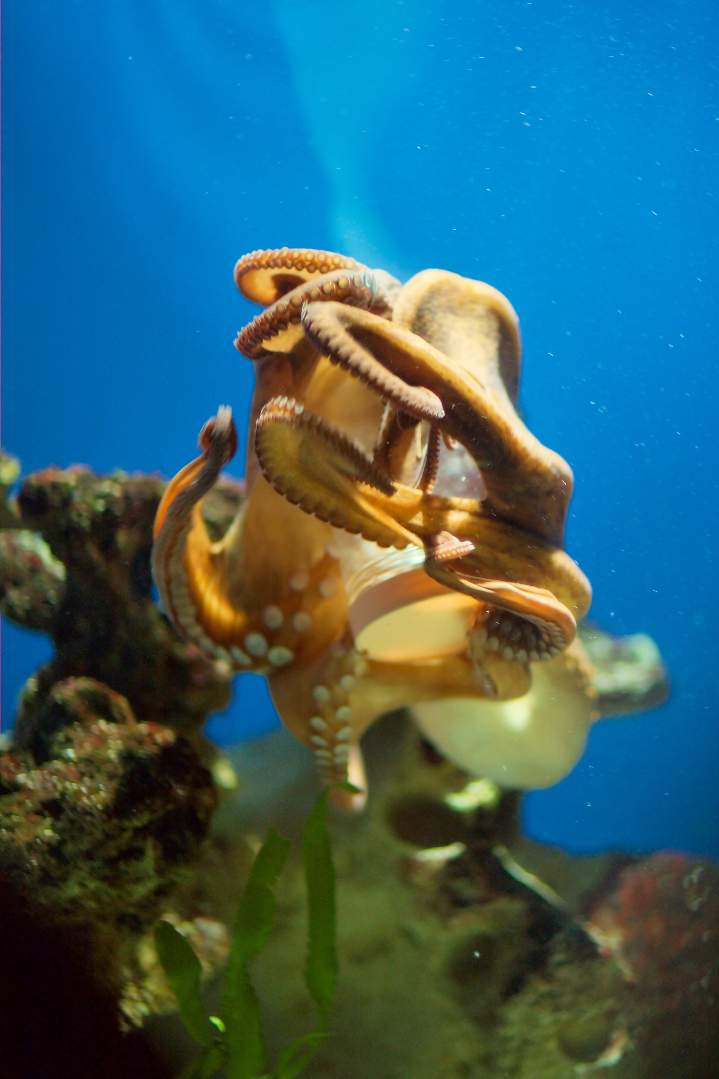 Octopus opening a container with a screw cap. Photographed at "Haus der Natur", Salzburg, Austria